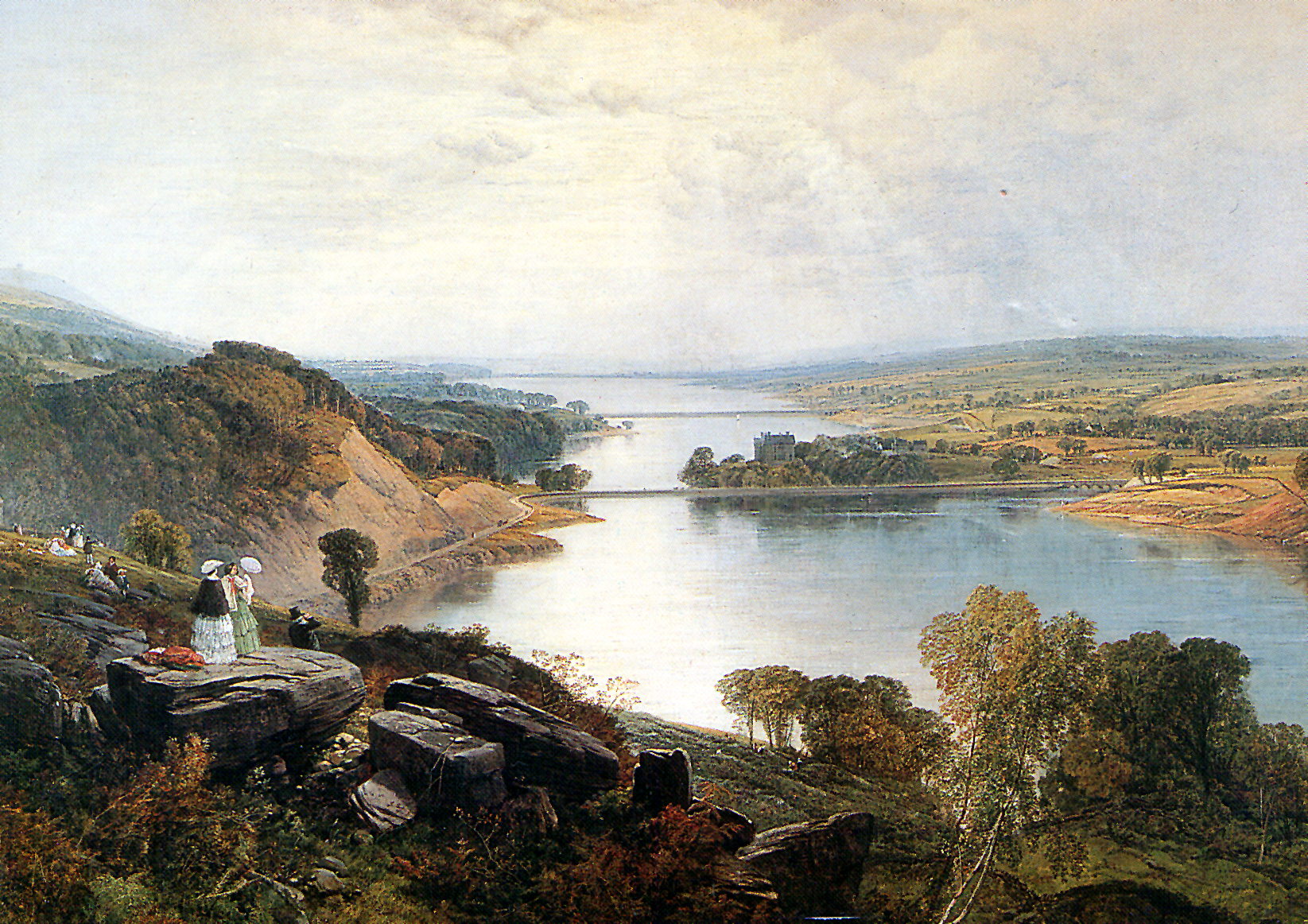 Lakes in Rivington, Lancashire, England.